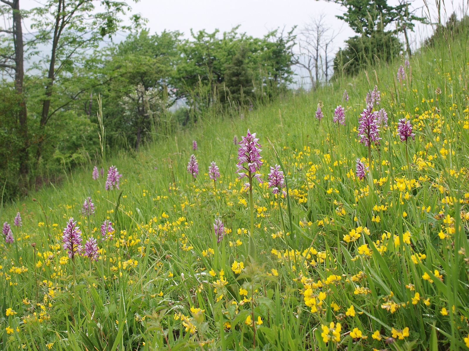 Orchis militaris, Tauberland, Germany